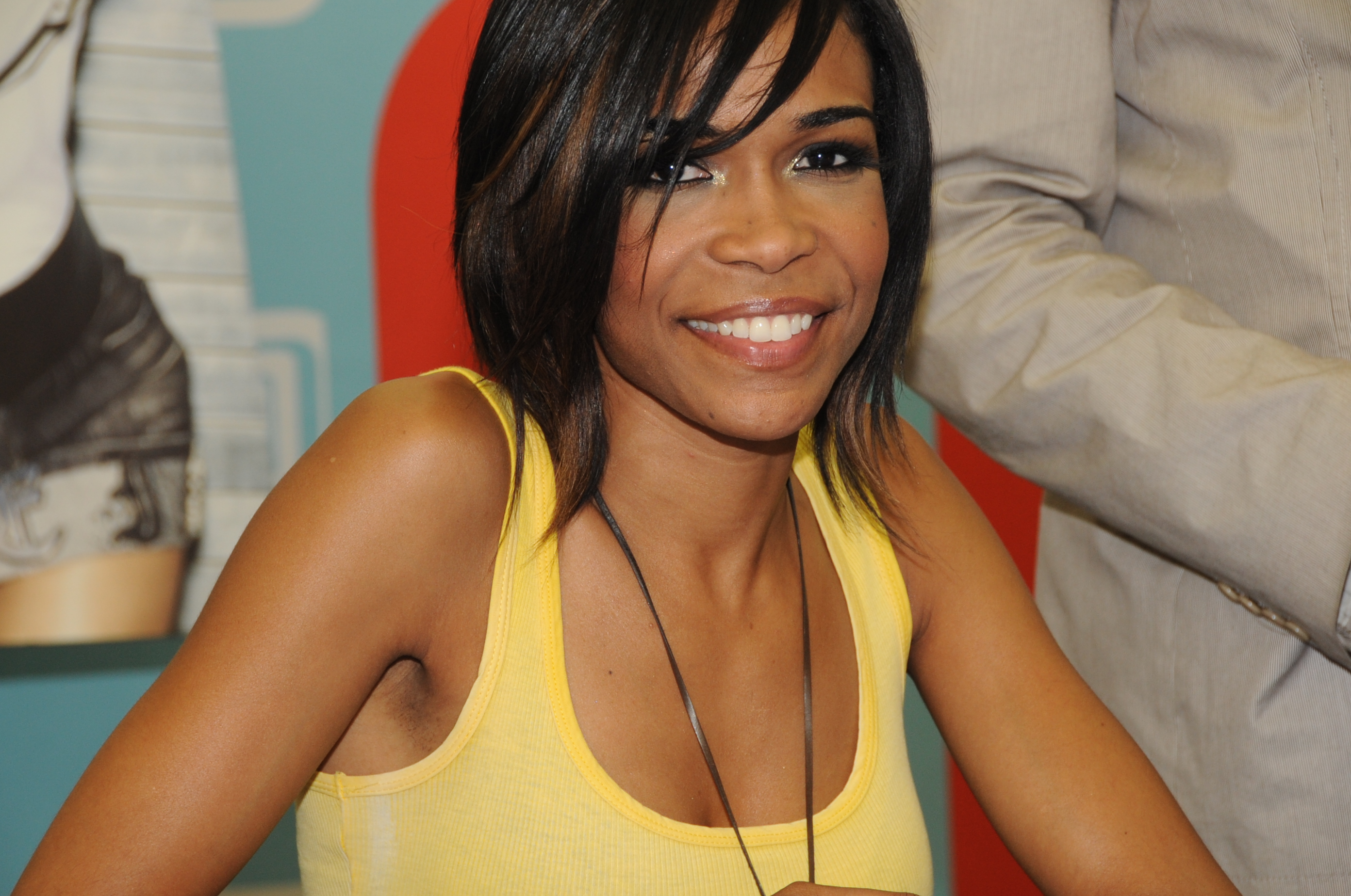 Autograph Signing with fans